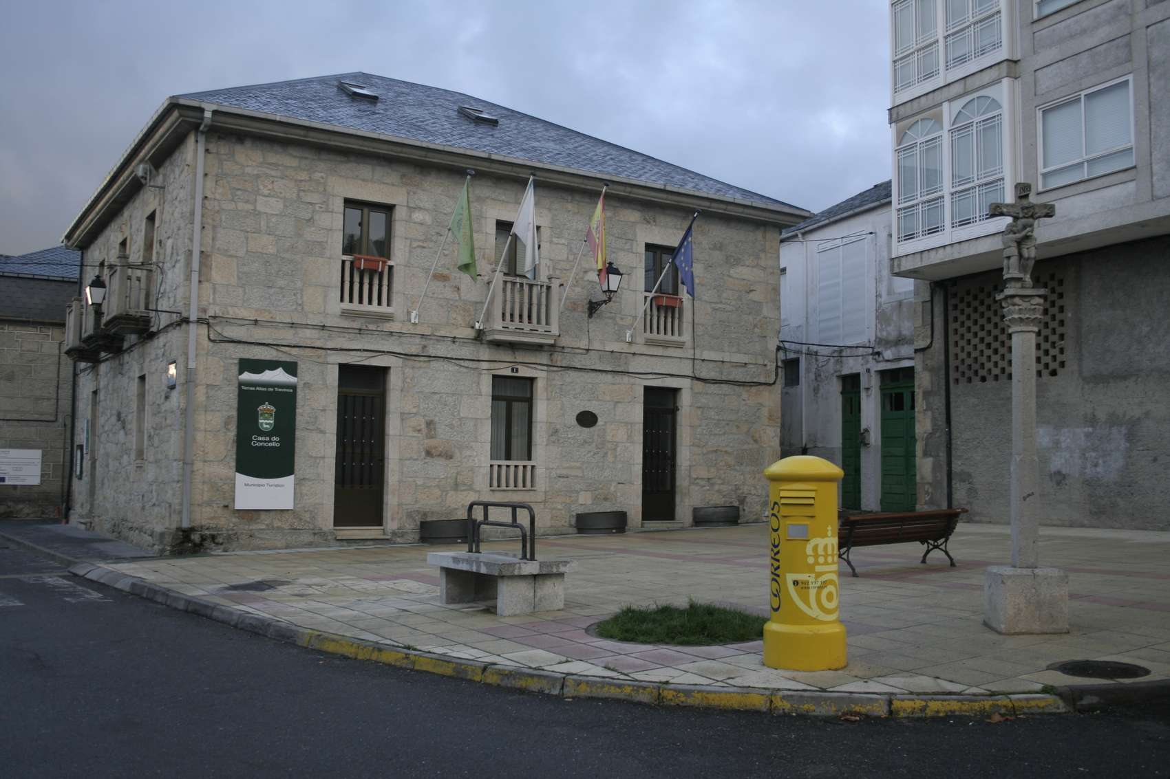 Town Hall in A Veiga (Spain)